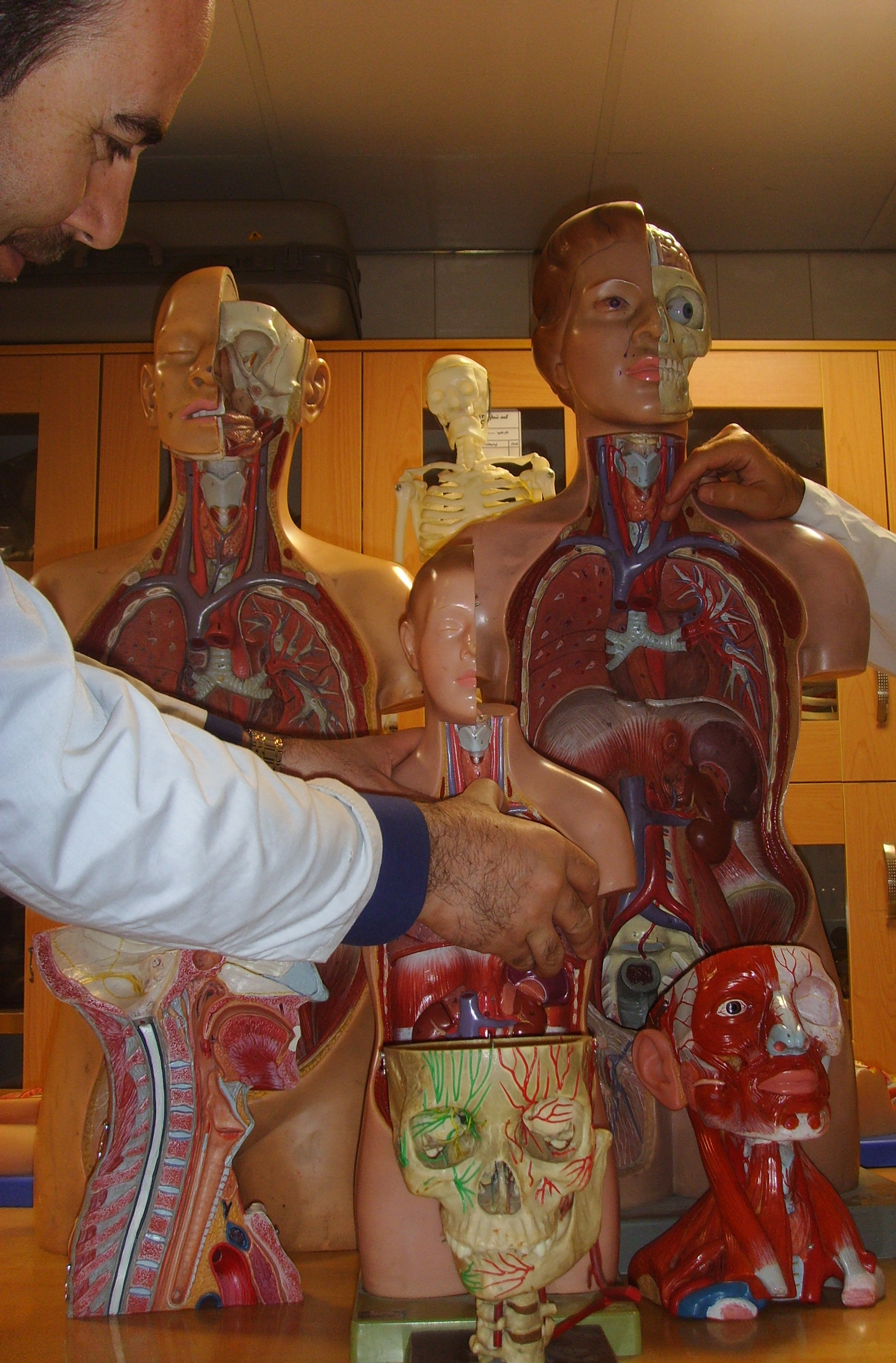 Anatomical lecture by moulages (anatomical model in moulage room of medical school).